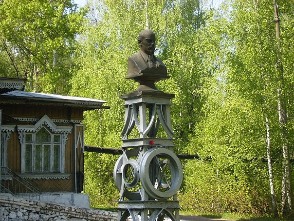 bust Lenin (1925)outside the City Museum